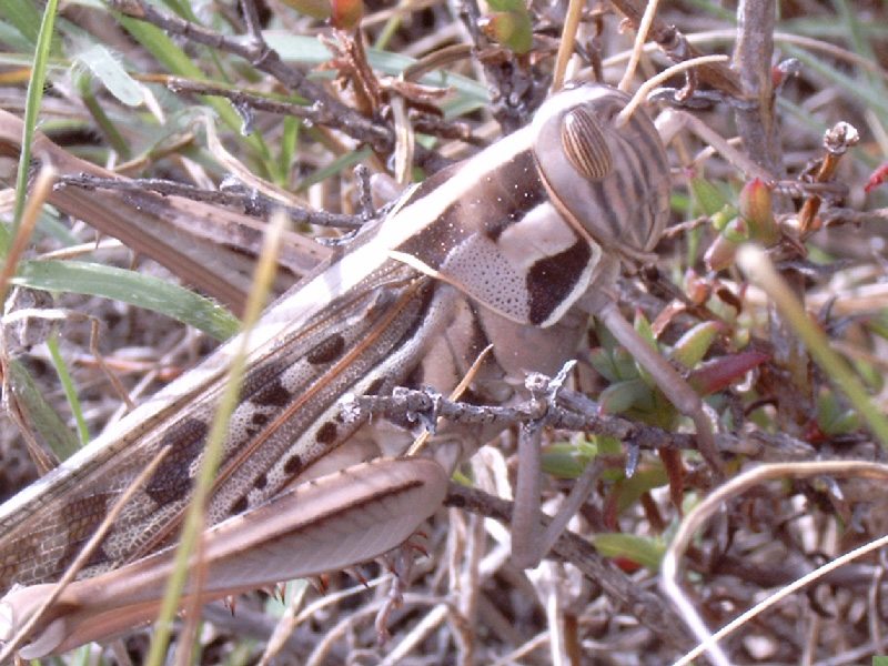 Cyrtacanthacris tatarica South Africa - Little Karoo